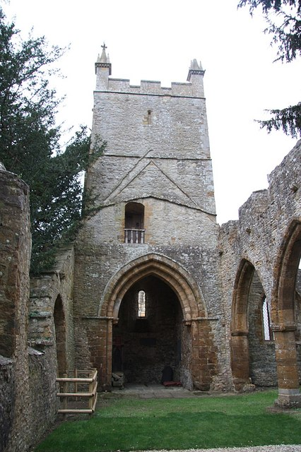 Holy Trinity ruins Inside the nave of the former Holy Trinity church at Ettington Park